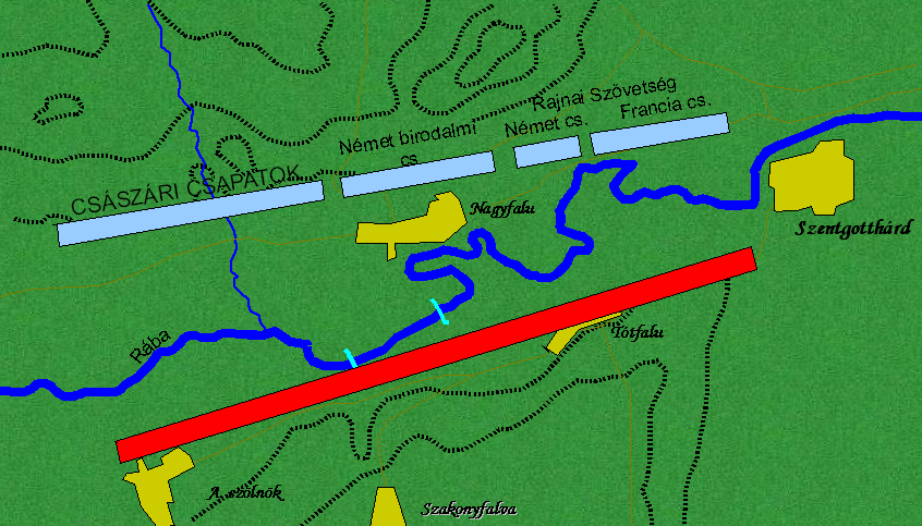 The map of Battle of Saint Gotthard (1664); the opposing forces